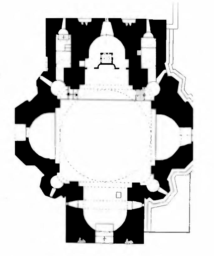 Plan of Armenian Cathedral of the Holy Cross in Aktamar